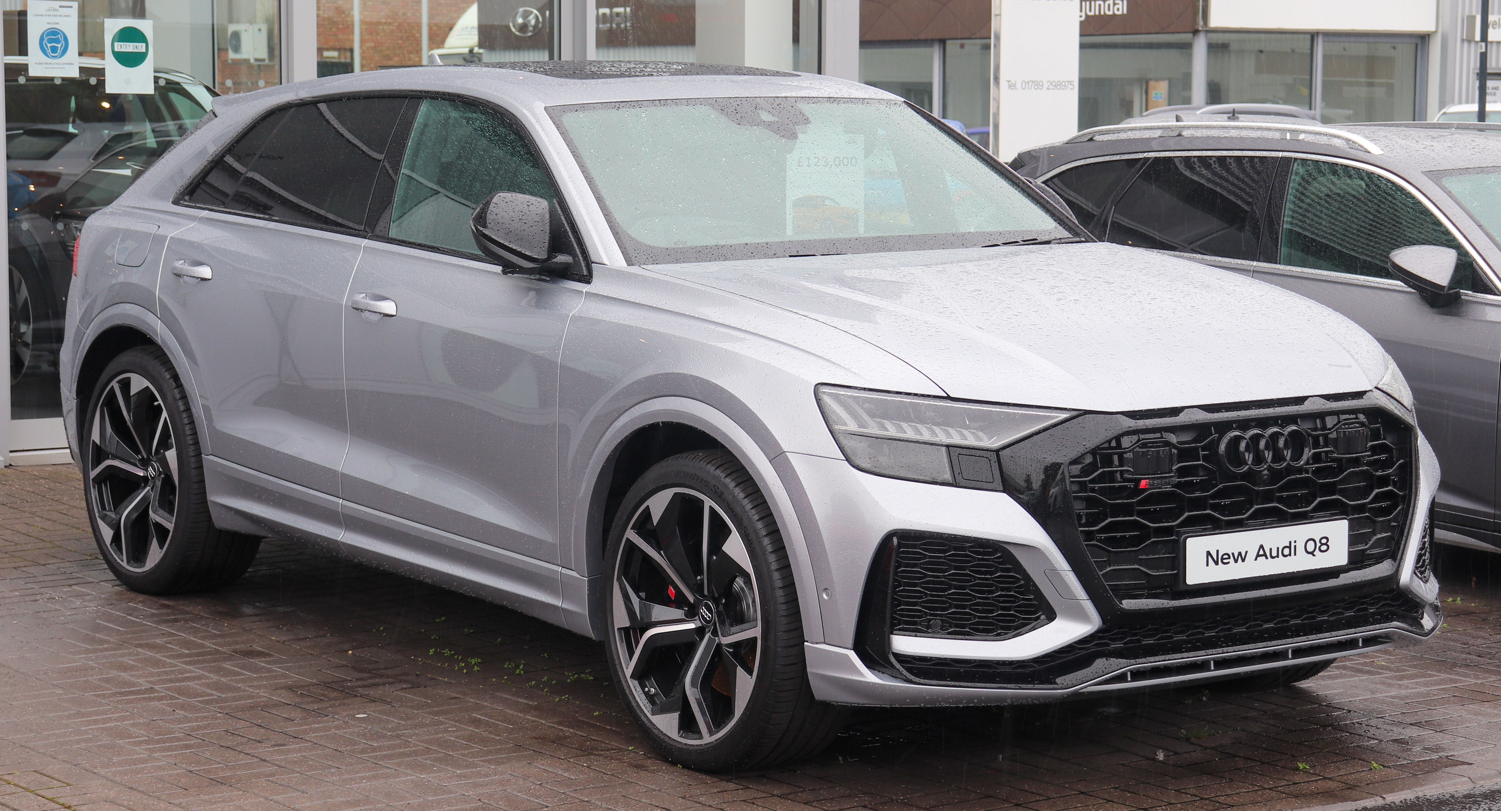 2020 Audi RS Q8 Front Taken in Stratford-upon-Avon